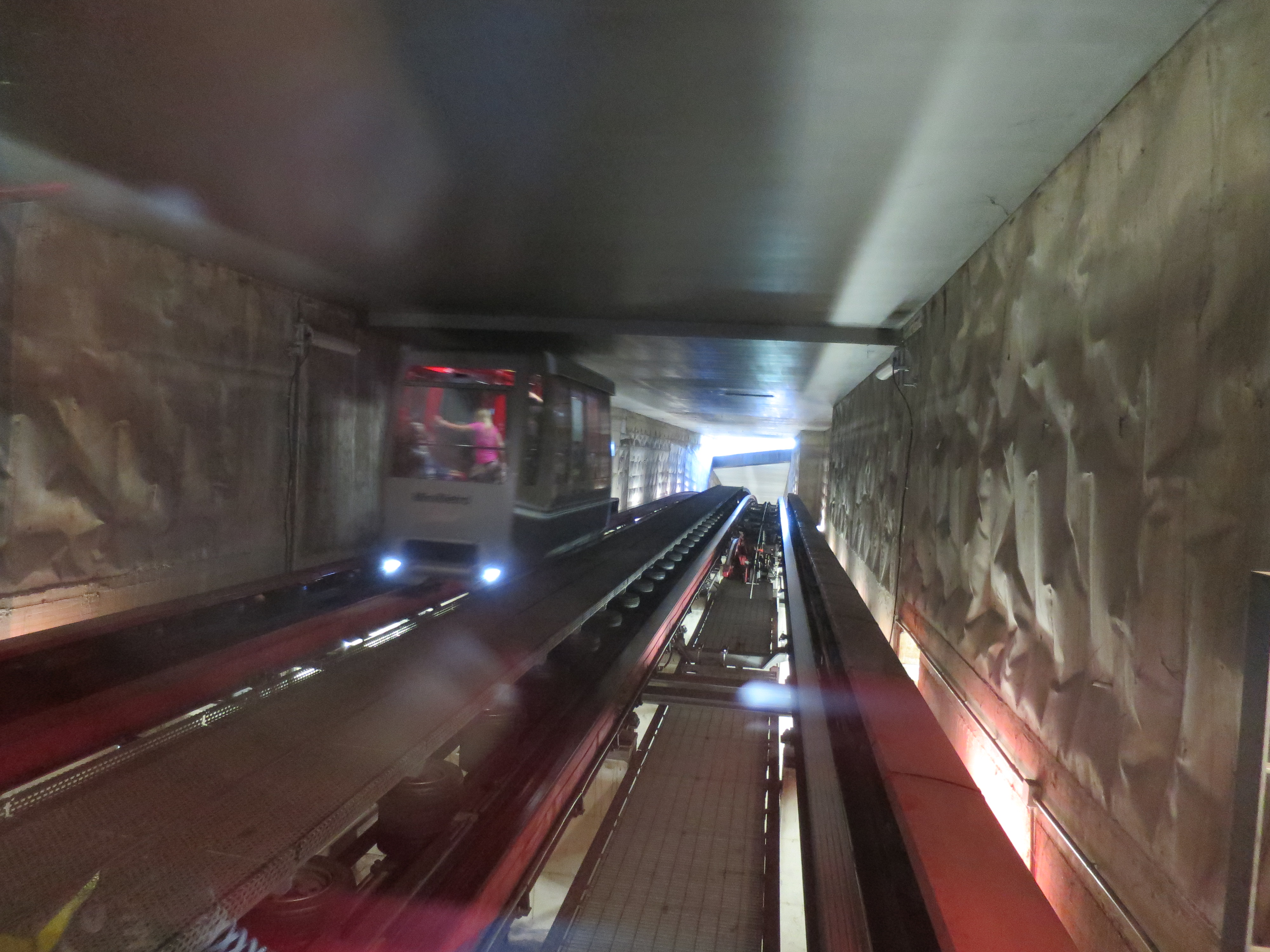 Line of Minimetró Perugia in tunnel between stations of Cupa and Case Bruciate